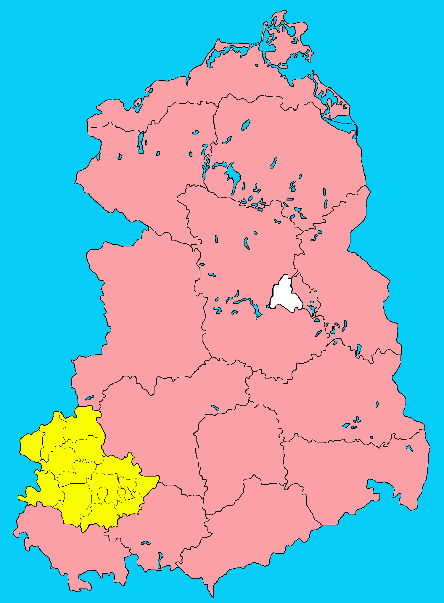 Map of the District of Erfurt in the German Democratic Republic (East Germany). The districts existed between 1952 and 1990. All of the district's area belongs now to the Free State of Thuringia.